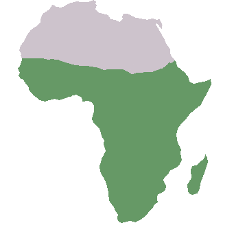 Geographic map of Sub-Saharan Africa.